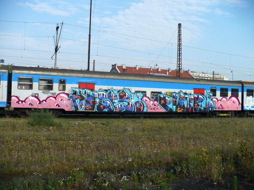 end 2 end train, graffiti, prague